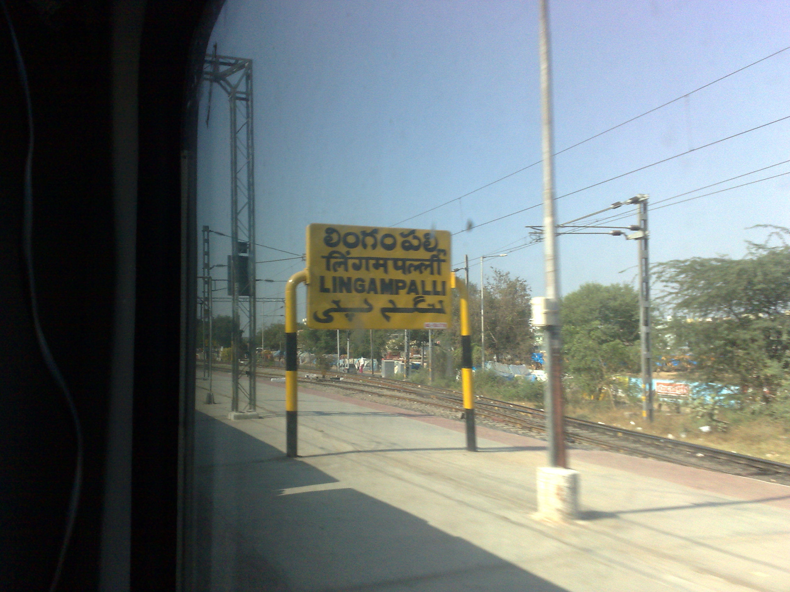 Lingampally railway station